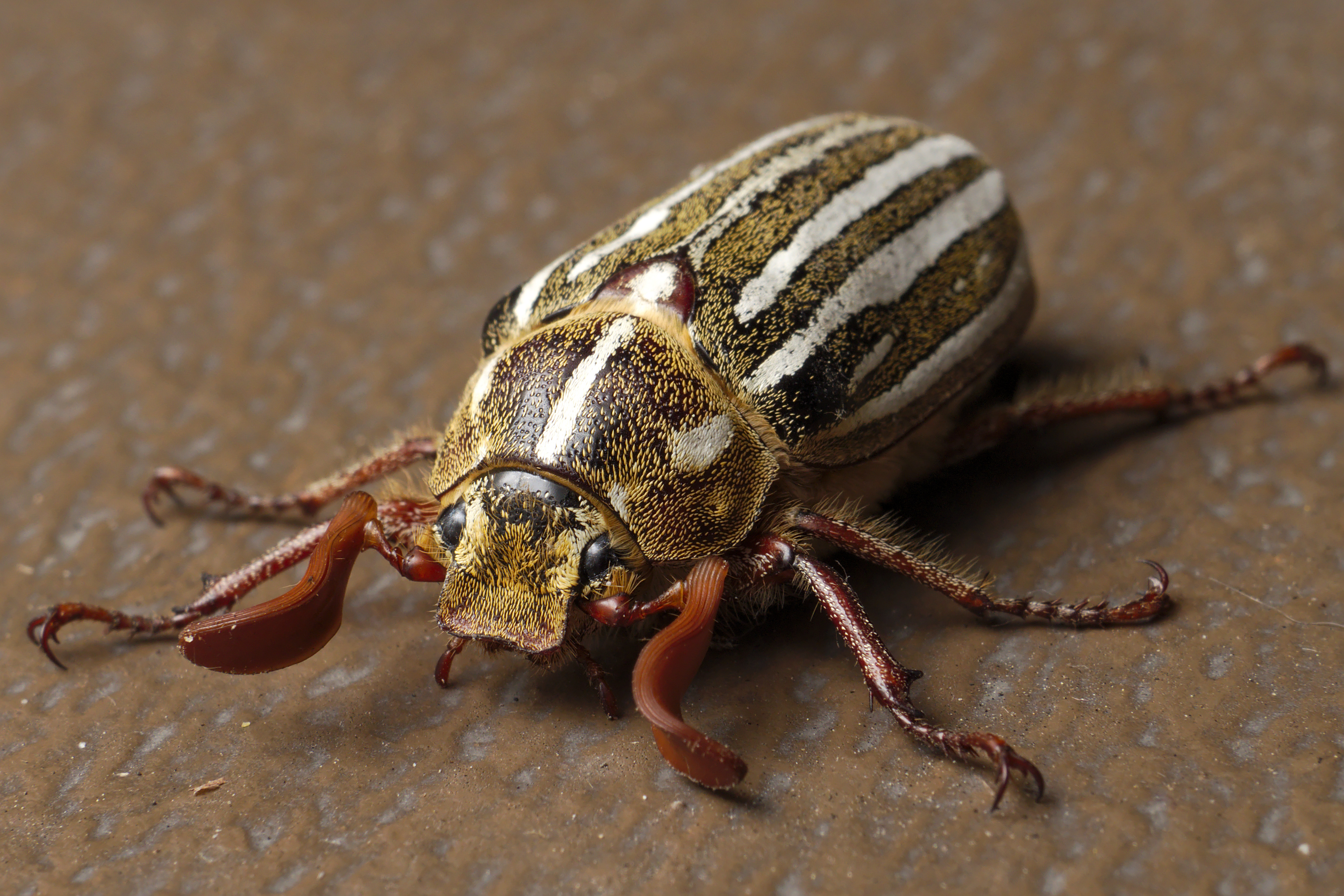 Male Polyphylla decemlineata, Ten-lined June beetle, or Watermelon beetle, in Los Angeles 2015. There seem to be a lot of them around this year. This was the largest I've seen, ~3 centimetres (1.2 in).